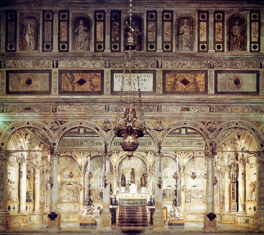 Chapel of Saint Anthony, with the saint's tomb, at Basilica di Sant'Antonio de Padua. Design by Tullio Lombardo, sculpture by him and other sculptors